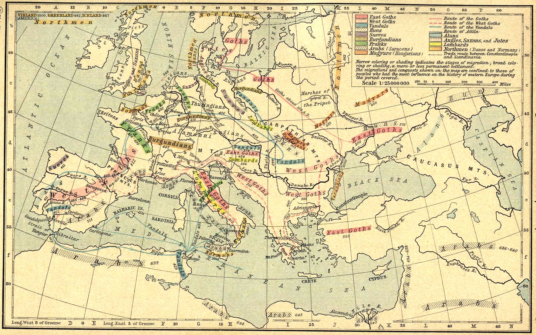 Germanic Migrations and Conquests, 150-1066